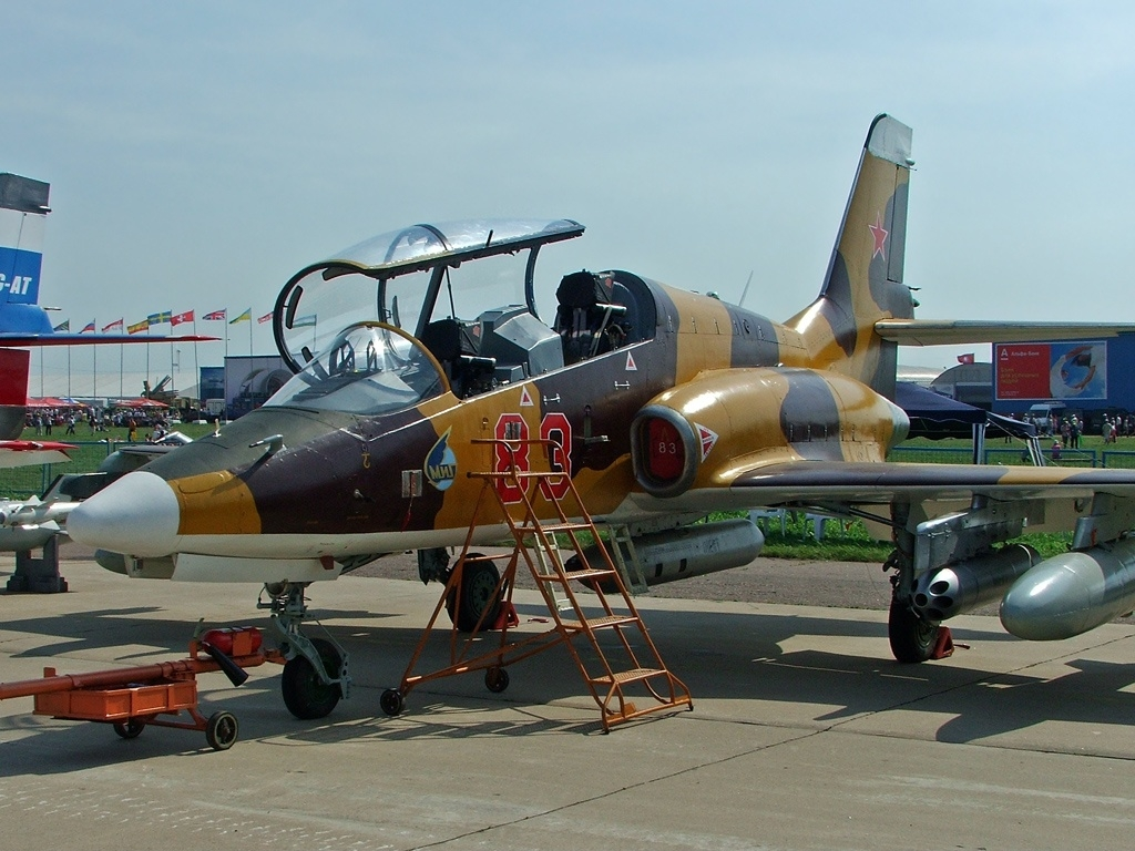 MiG-AT advanced trainer at MAKS-2007 airshow